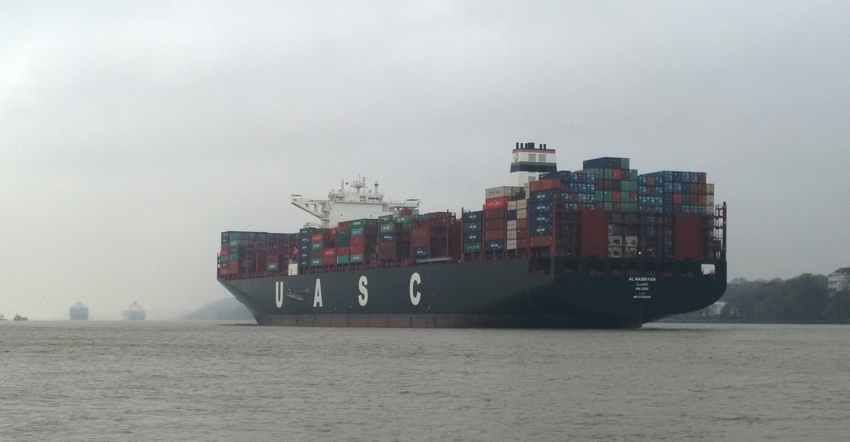 Container ship Al Nasriyah starting Port of Hamburg the Elbe river downstream